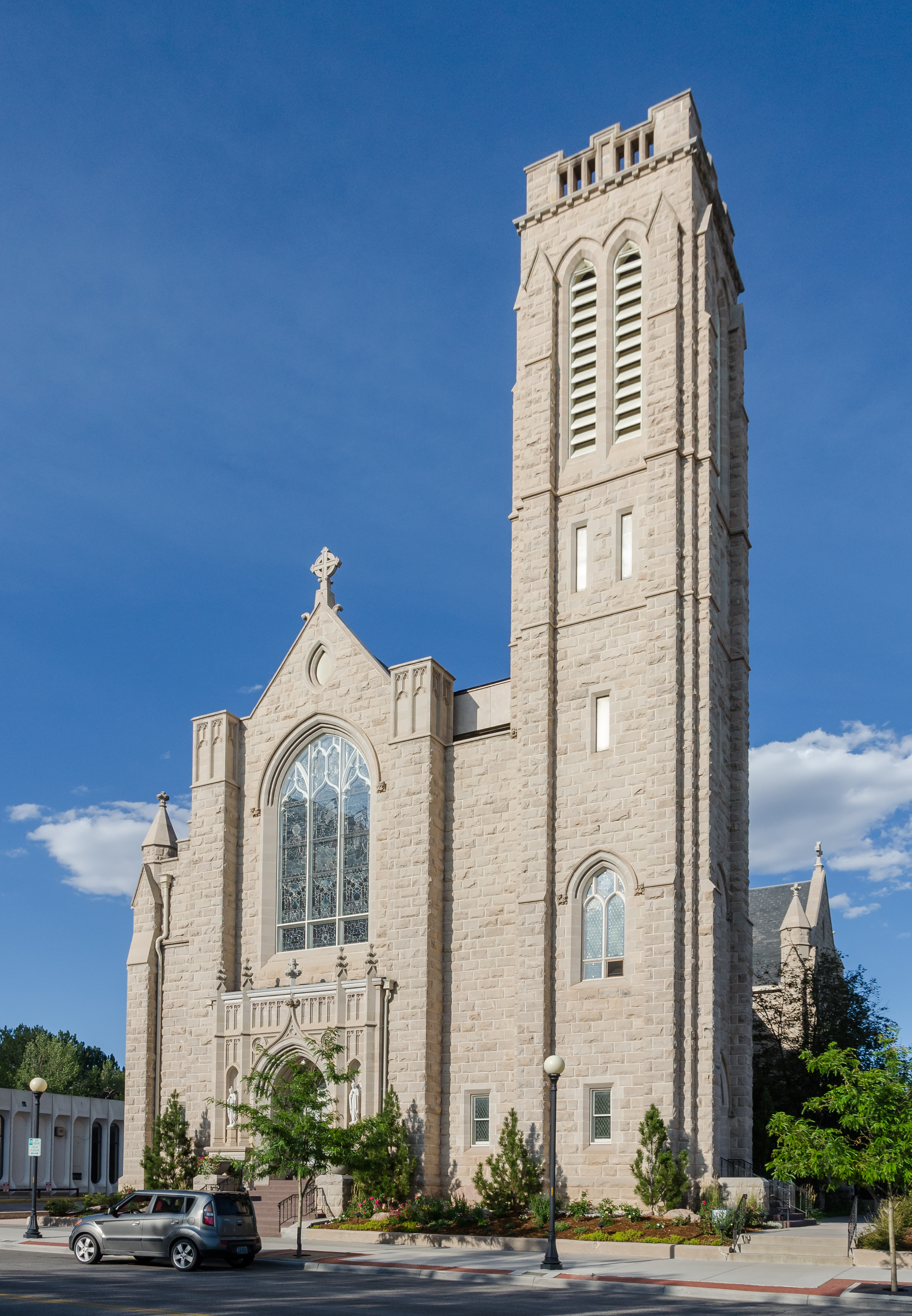 The catholic cathedral of Cheyenne, as seen from Capitol Avenue